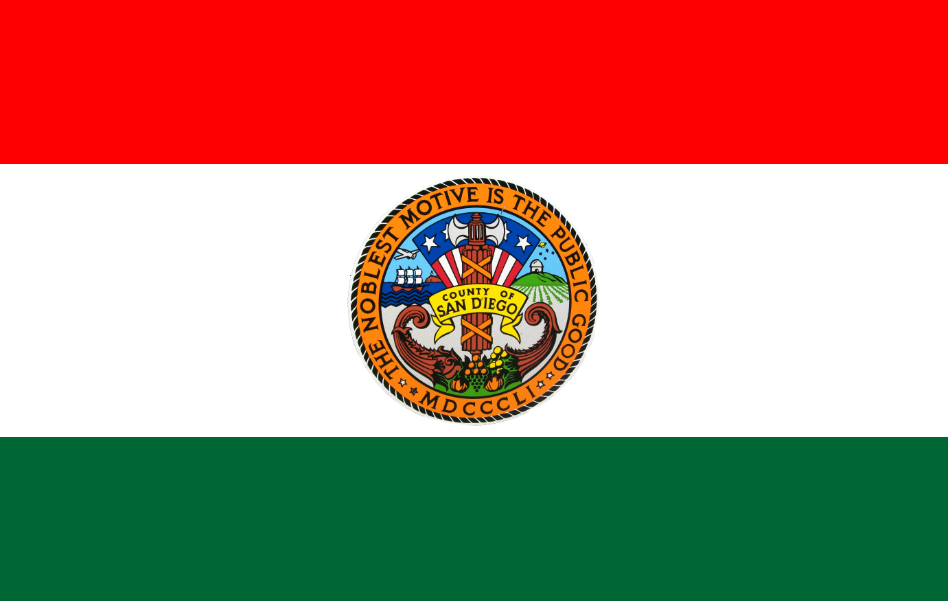 The official flag of San Diego County — in Southern California. For additional information about the flag, see: : San Diego County, California.